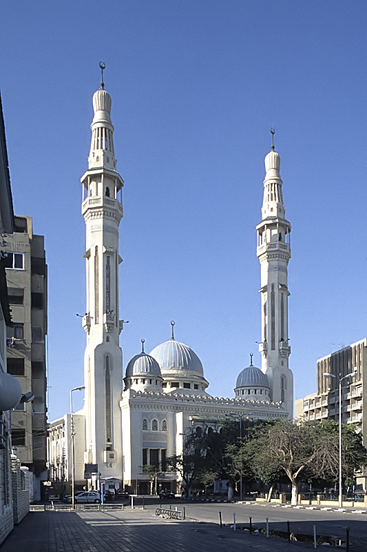 Mosque of Abu Bakr el-Sadiq, Ismailia, Egypt